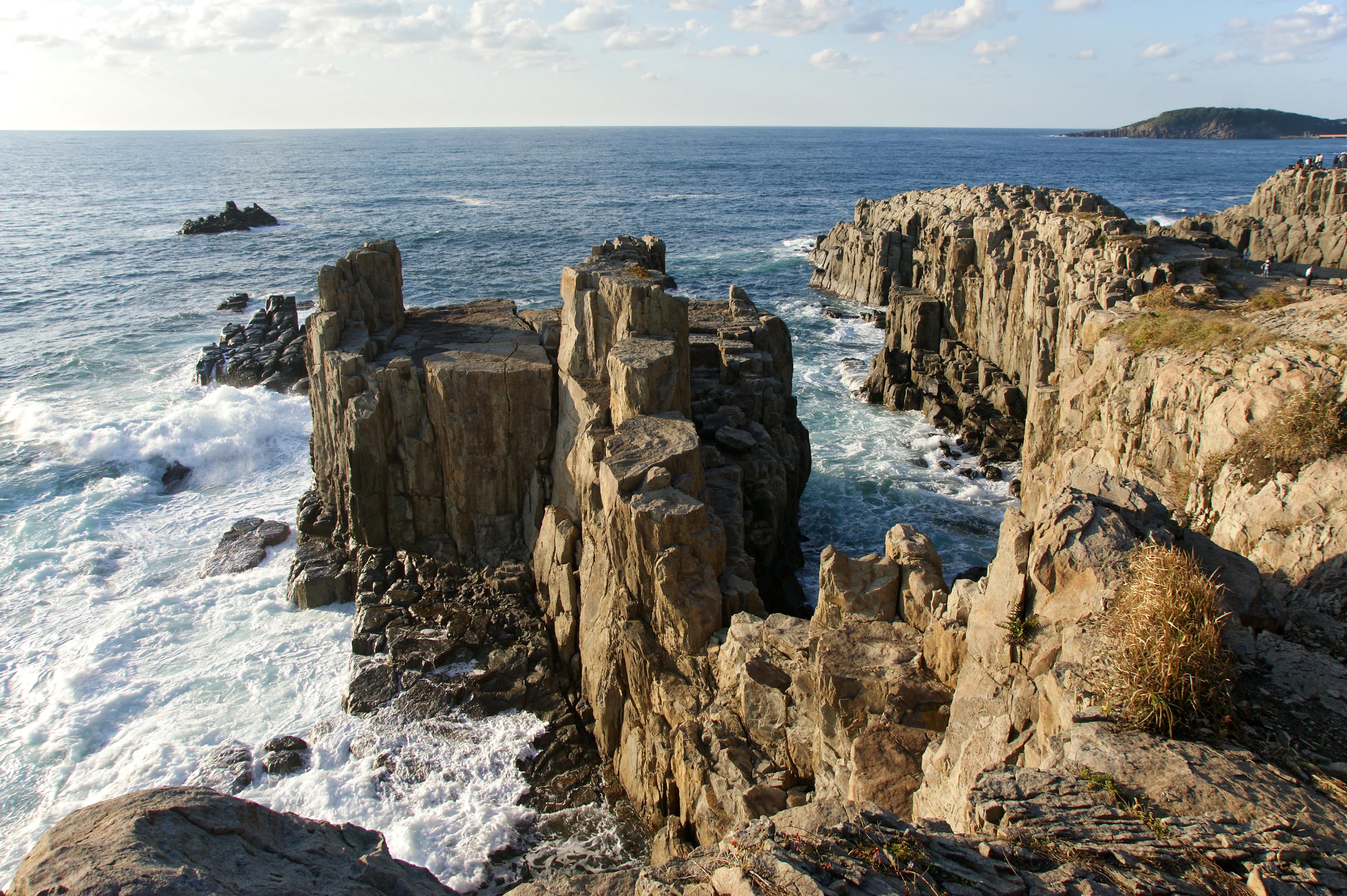 Tōjinbō in Sakai, Fukui prefecture, Japan